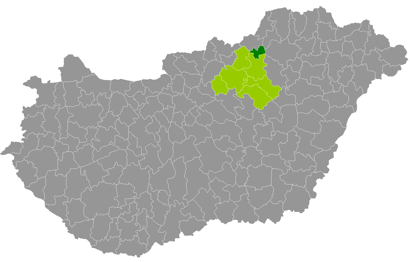 Location of Bélapátfalva District, Heves, Hungary